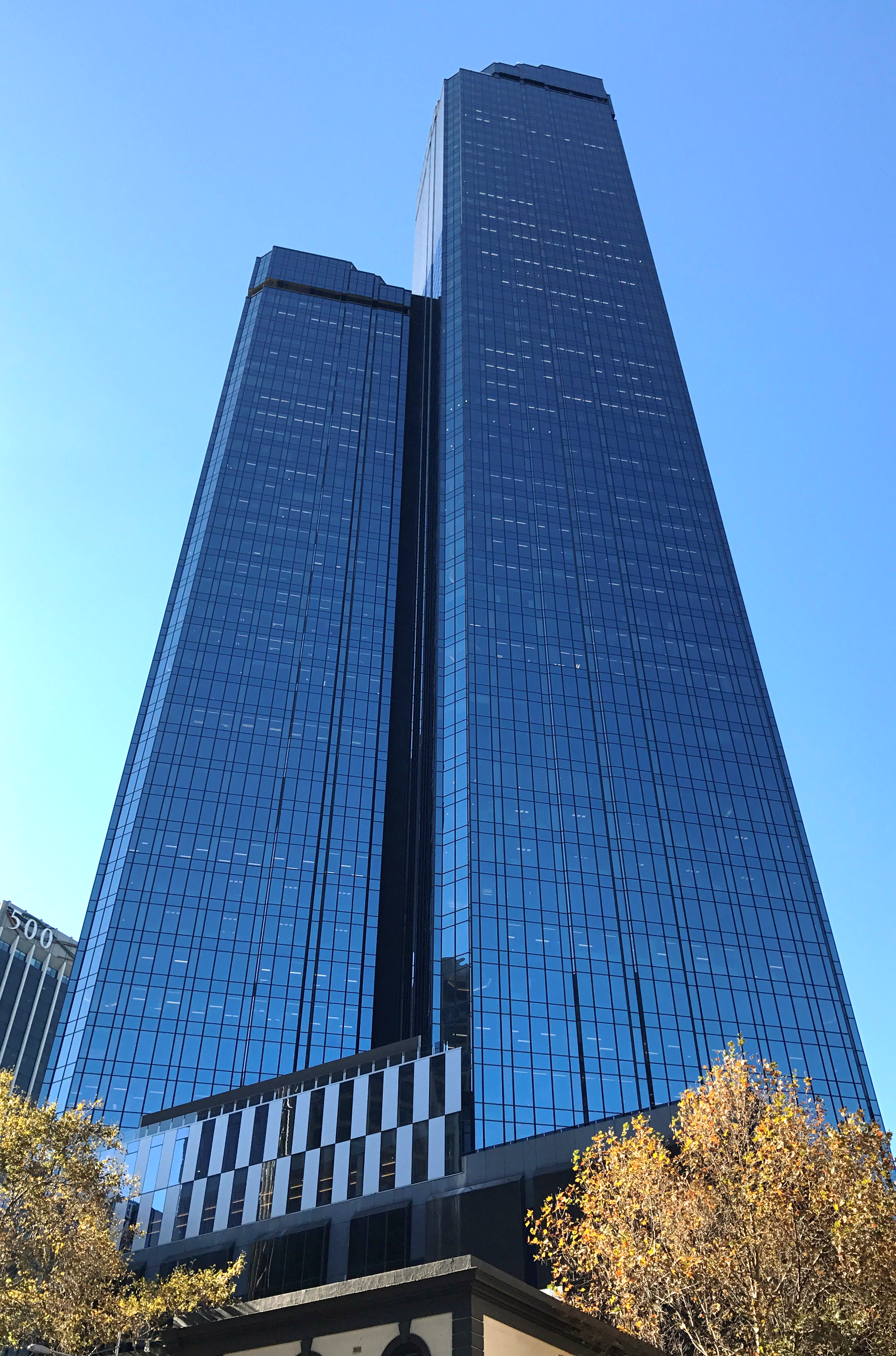 Rialto, in May 2017. Crop and edit of Rialto, in May 2017.jpg